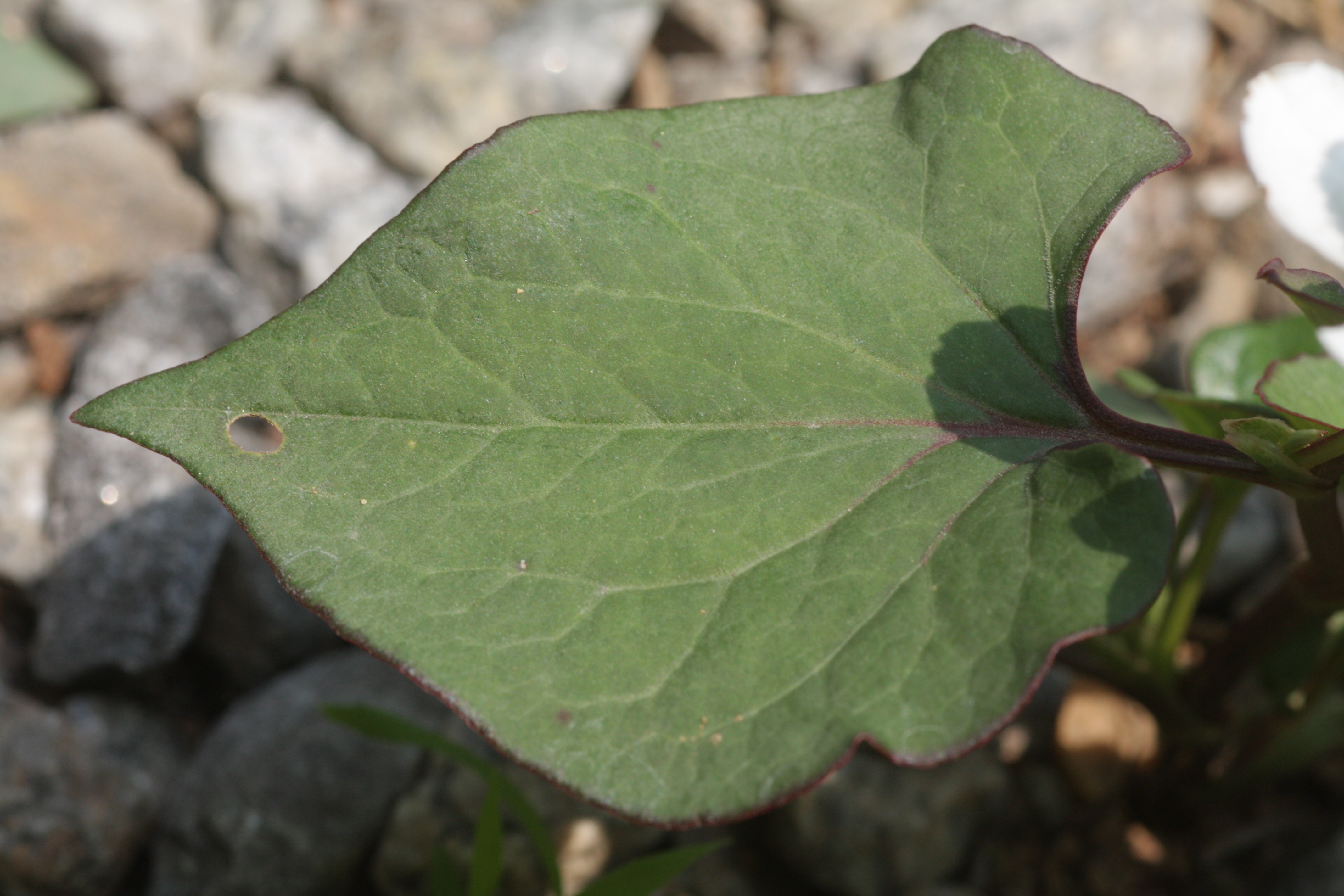 Houttuynia cordata